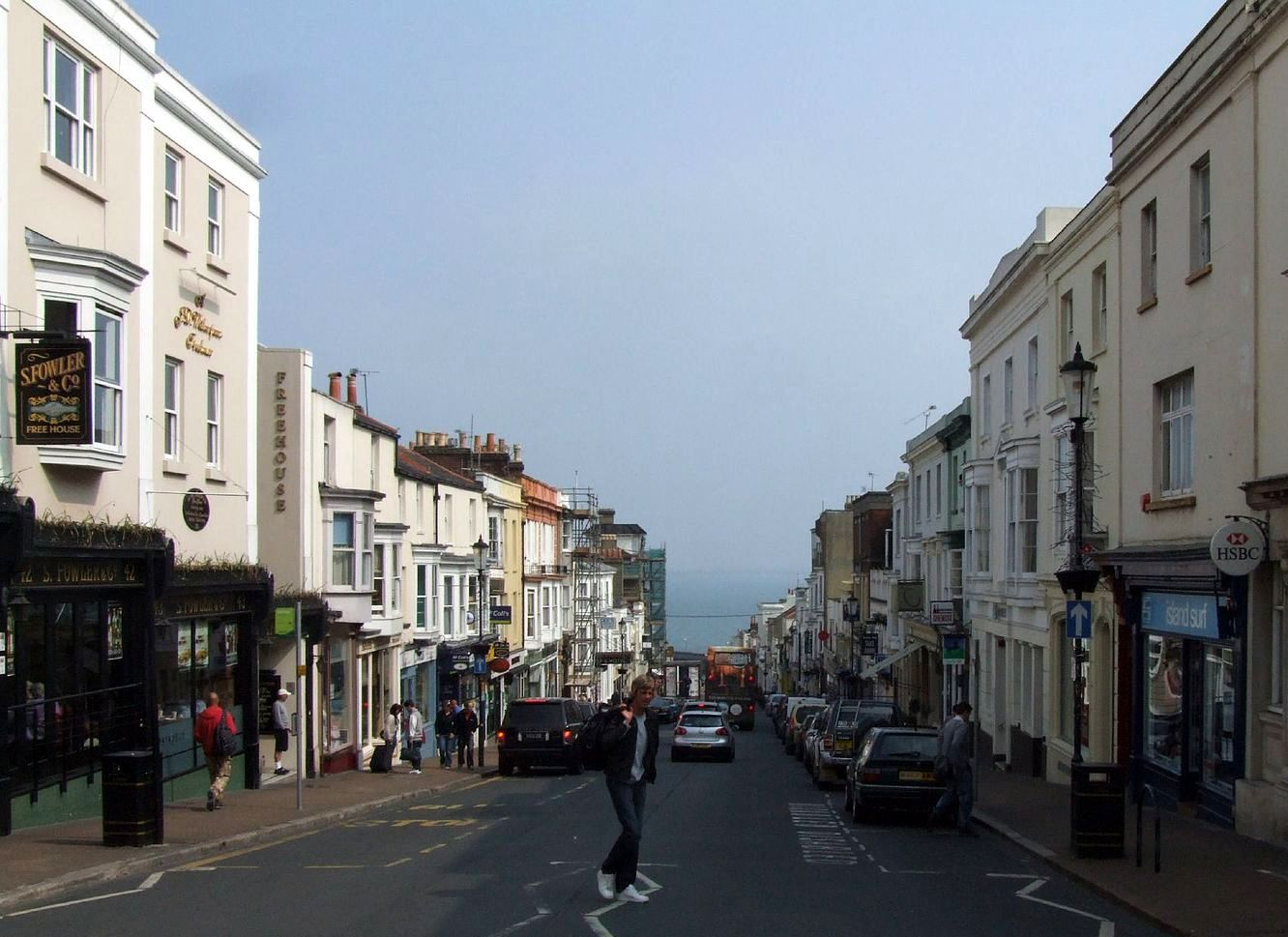 Down to the sea